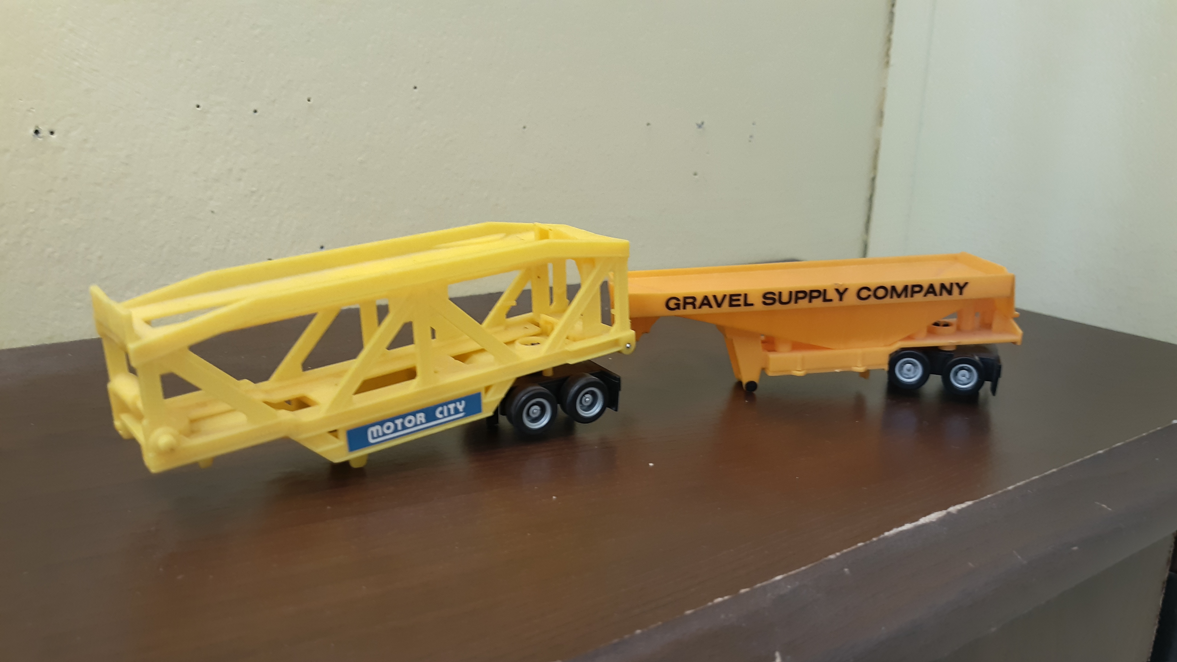 Two of the many US-1 trailers